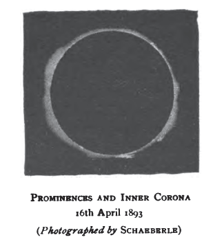 Solar eclipse of April 16